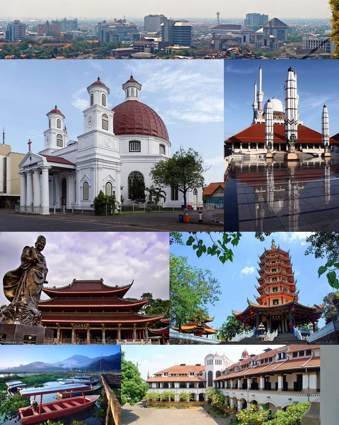 From top, left to right: Semarang city skyline, Semarang's Blenduk Church is the oldest Church in Central Java, The Great Mosque of Central Java, Gedung Batu Temple (the oldest Chinese temple), Pagoda Avalokitesvara, Rawa Pening (Pening swamp) water tourism, and iconic building of Lawang Sewu.